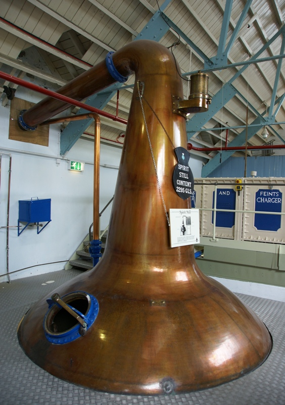 Dallas Dhu Distillery, Moray, Scotland - spirit still